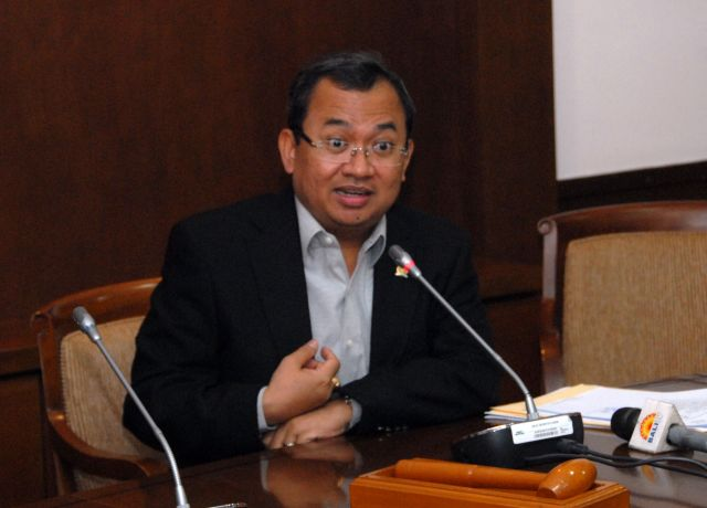 The deputy chairman of DPR (2009-2014)